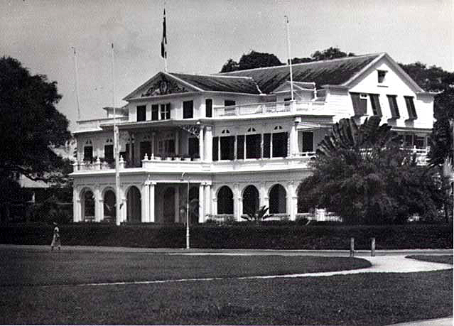 I inherited this photo from my father when he died.